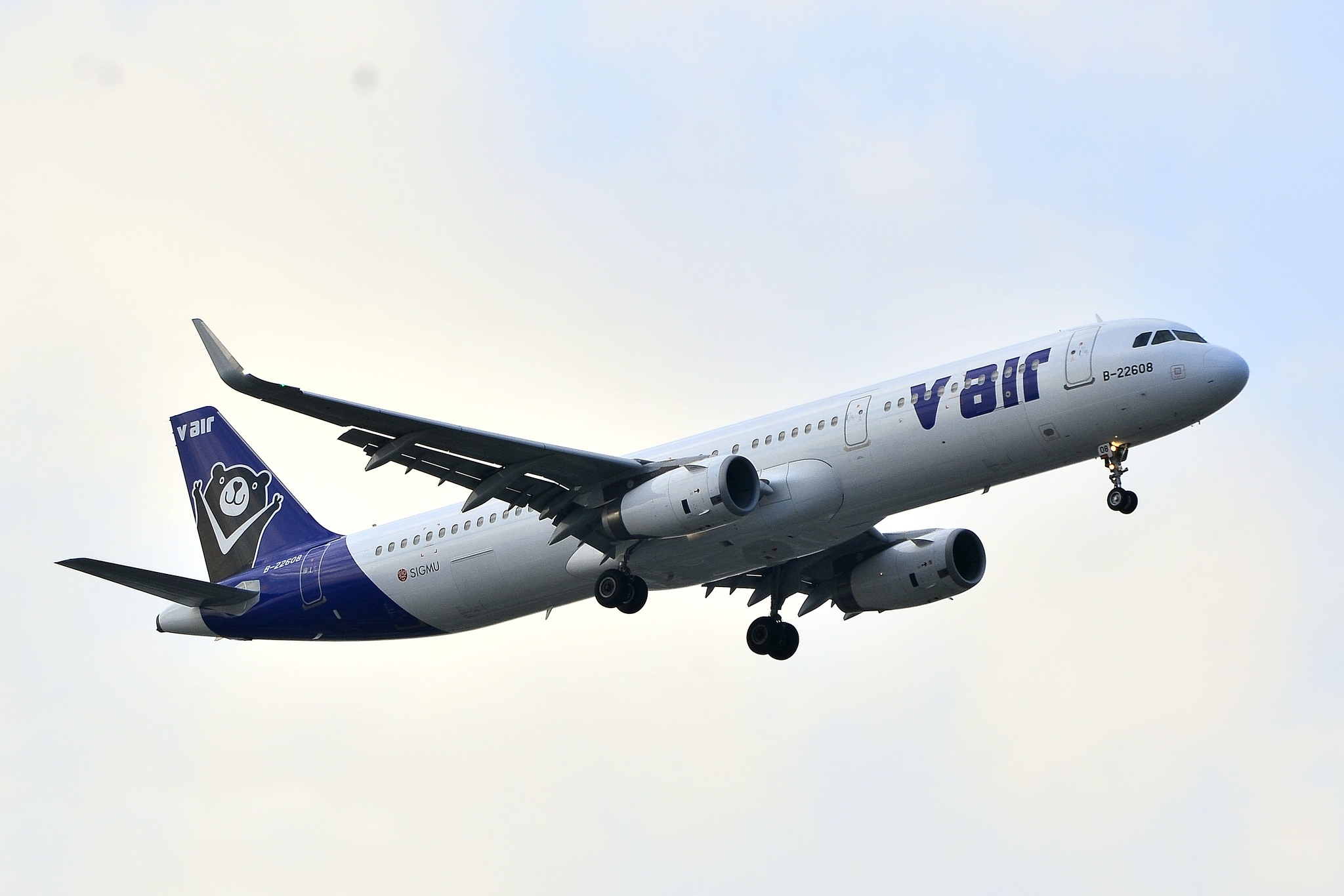 V Air's first plane returning to Songshan Airport from Tainan airport after the paint job is finished.